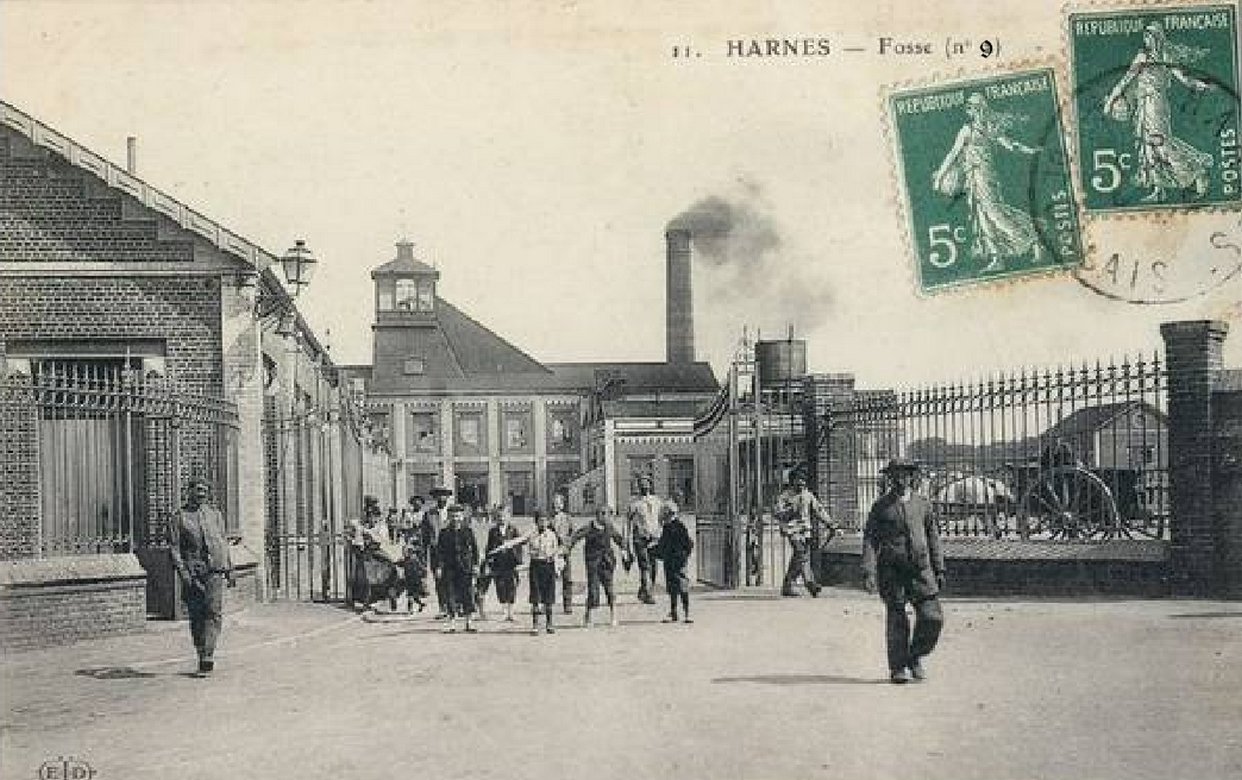 Compagnie des mines de Courrières, France.